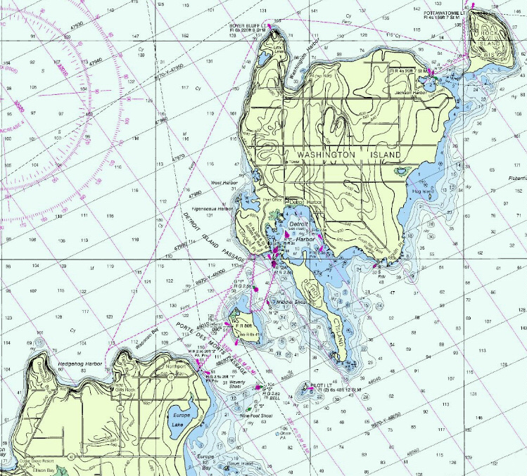 Detail of NOAA Chart # 14909 showing Porte des Morts Passage and Washington Island (Wisconsin). Not sufficient for purposes of navigation.